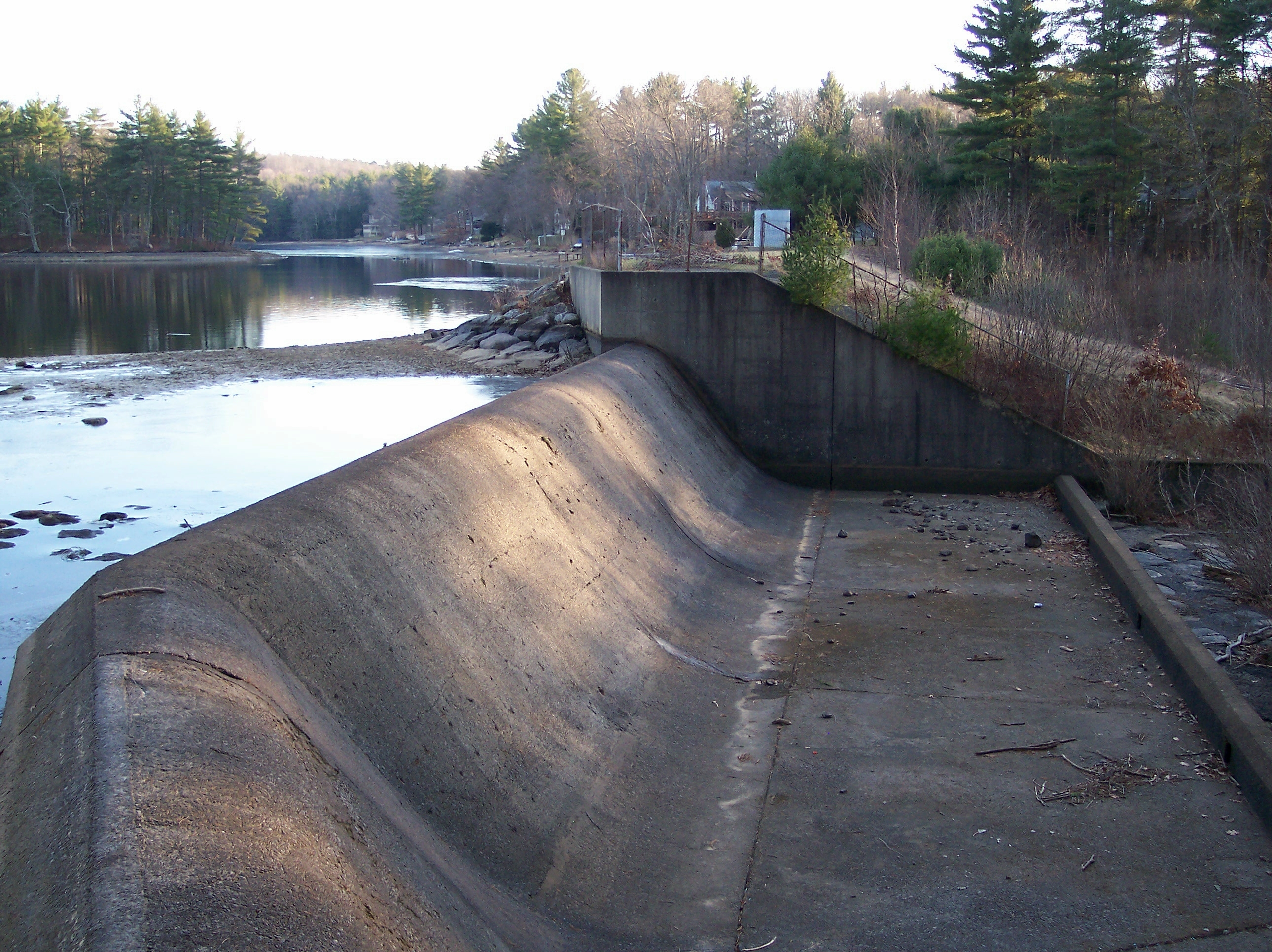 Photograph of Sugden Dam in North Spencer taken by Author, Richard B. Johnson.